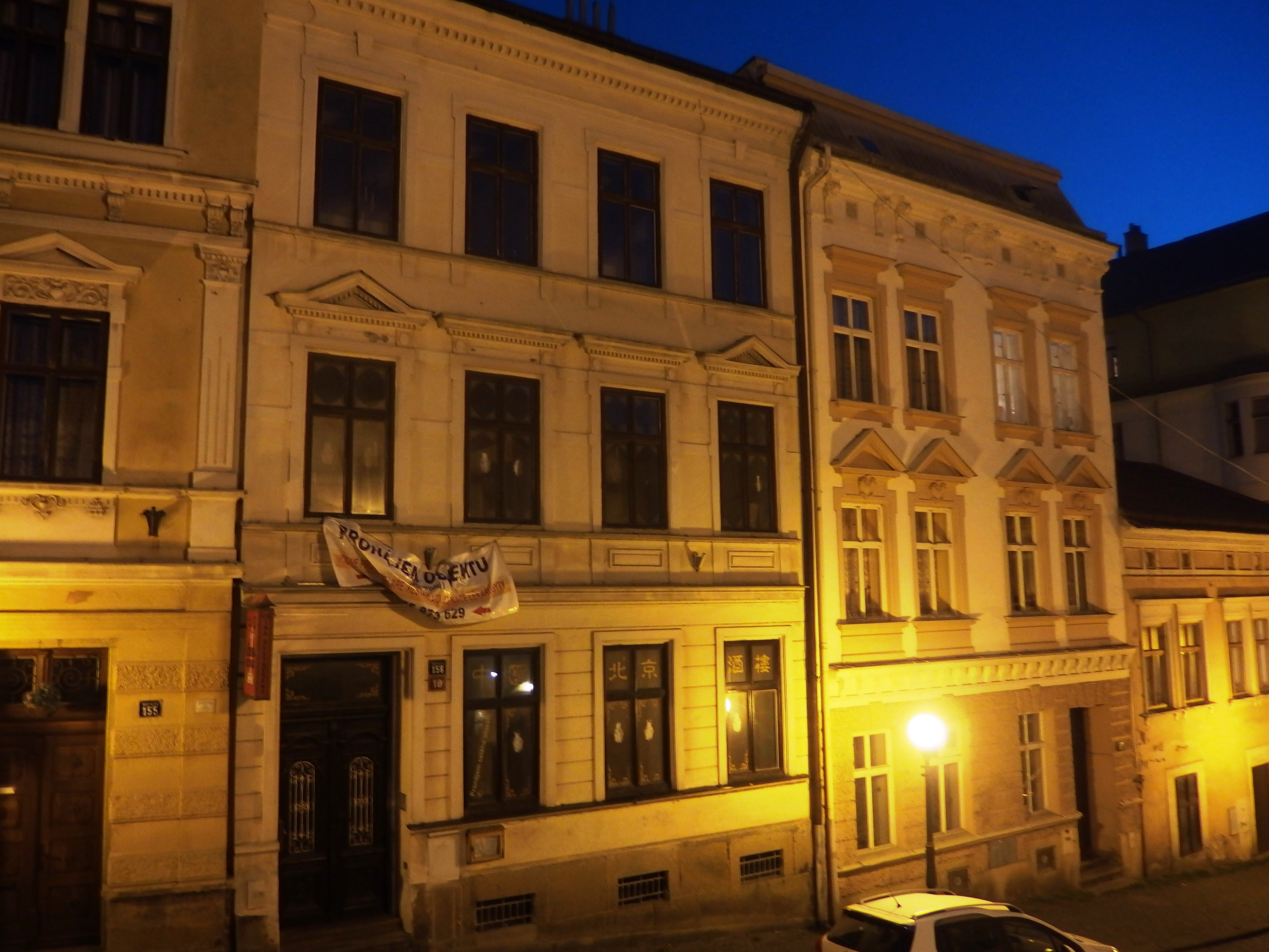 Trutnov, Czech Republic.